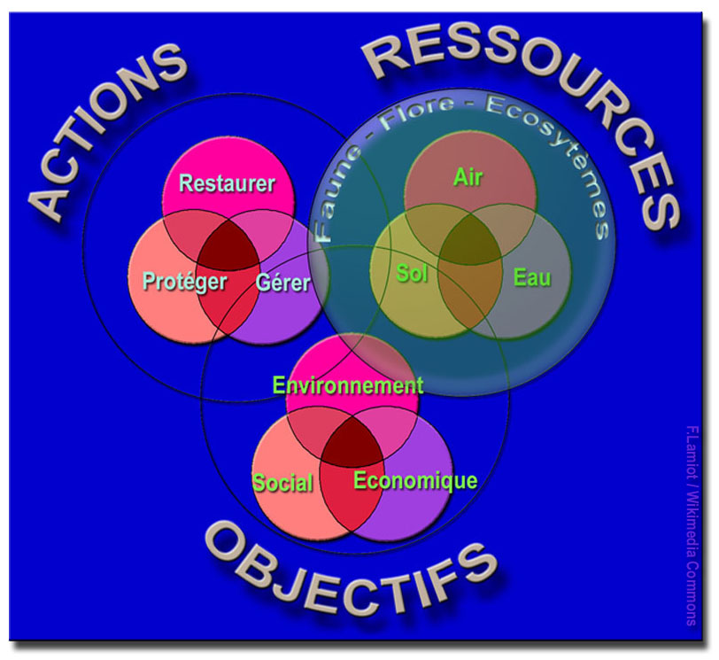 Graphic and colored representation of the interrelationships between main areas of sustainable development. This diagram describes the need to manage, restore and protect vital resources (water, air, soil, produced or maintained by biodiversity through ecosystems and resources which are not few, difficultly, expensively or slowly renewable), for this goals that are both social, economic and environmental so. The intersections between the spheres (or groups of spheres) represent interfaces in pairs, or three to three basic items. This type of representation allows to keep an overview of a problem (an impact assessment, a project, a "Agenda 21", a collective or individual situation, etc..) And perhaps, it can be used as a short checklist in the exploration of a problem with an ecosystem or systemic. It is also easy to memorize.